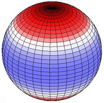 self-made. Vertical displacements of zonal oscilations.